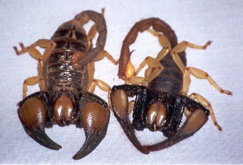 A golden serket female(left and male(right).